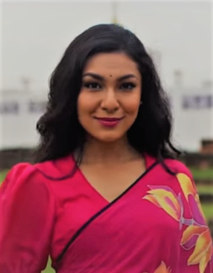 Anushka Shrestha - Miss World Nepal 2019, during a promotional video shoot.